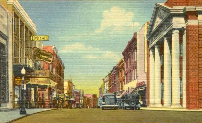 1940 post card of Main Street, Salisbury, Maryland